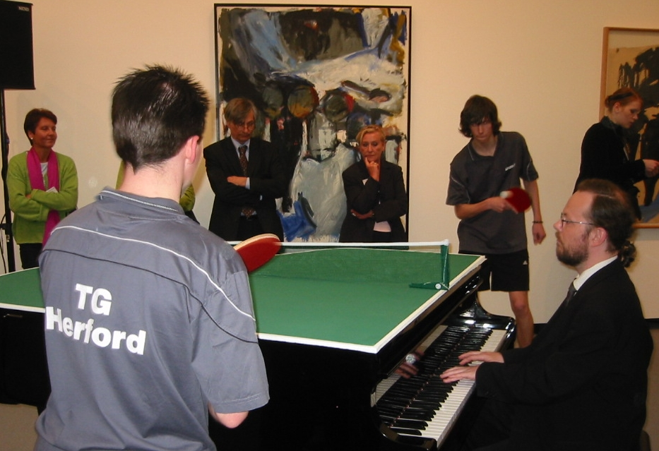 MARTa opening day performance in town of Herford, District of Herford, North Rhine-Westphalia, Germany